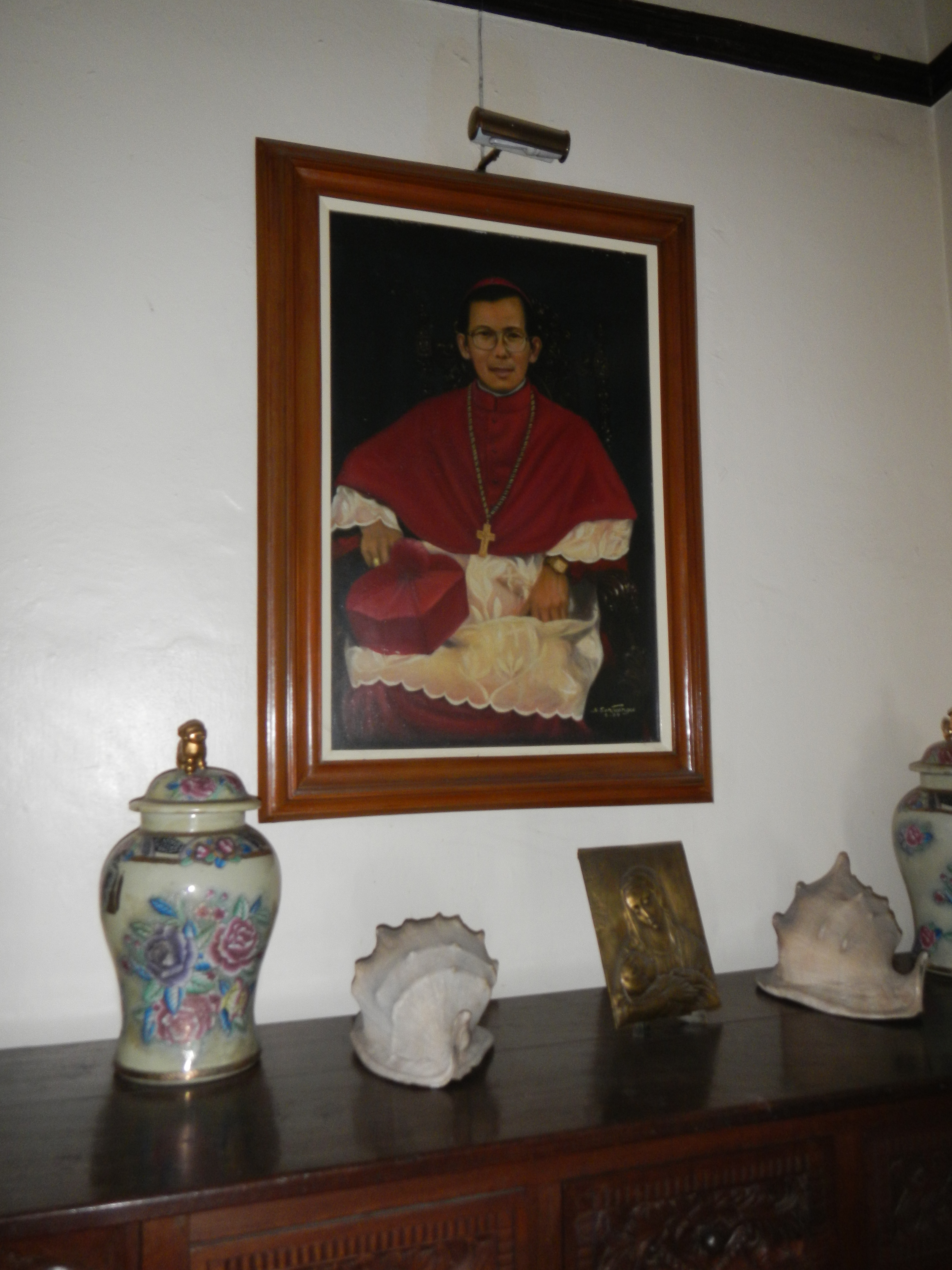 Upload Wizard photos of the - Archbishop's Chapel, Arzobizpado de Pampanga, Barangay San Jose City, September 8, 2008 - Archdiocesan Chancery [1]Diocesan chancery [2] is a heritage house in the City of San Fernando, Pampanga. It was the former residence of Luis Wenceslao Dison and Felisa Hizon that was purchased by the Roman Catholic Archdiocese of San Fernando[3] Archidioecesis Sancti Ferdinandi San Fernando, Pampanga now being used as the Archdiocesan Chancery - Nuestra Senora de la Virgen de los Remedios under Paciano Aniceto [4] preceded by Oscar Cruz[5] Most Rev. Cesar Maria Guerrero, D.D. - was the founder of "Virgen de los Remedios & Santo Cristo del Perdon" Crusade.